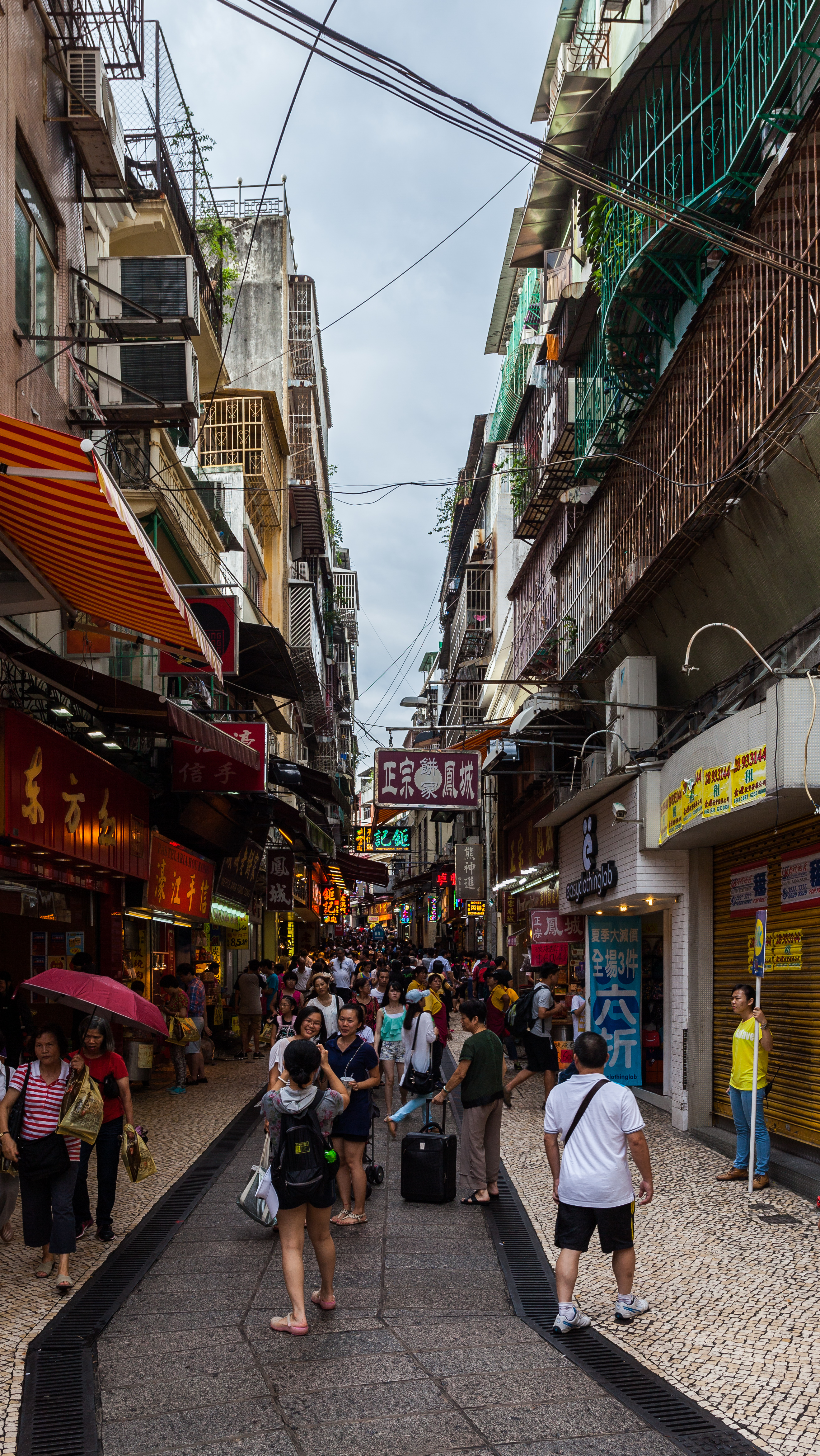 Rua da Palha, Macau